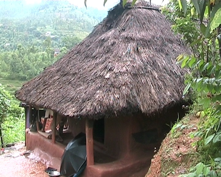 Nepali traditional home